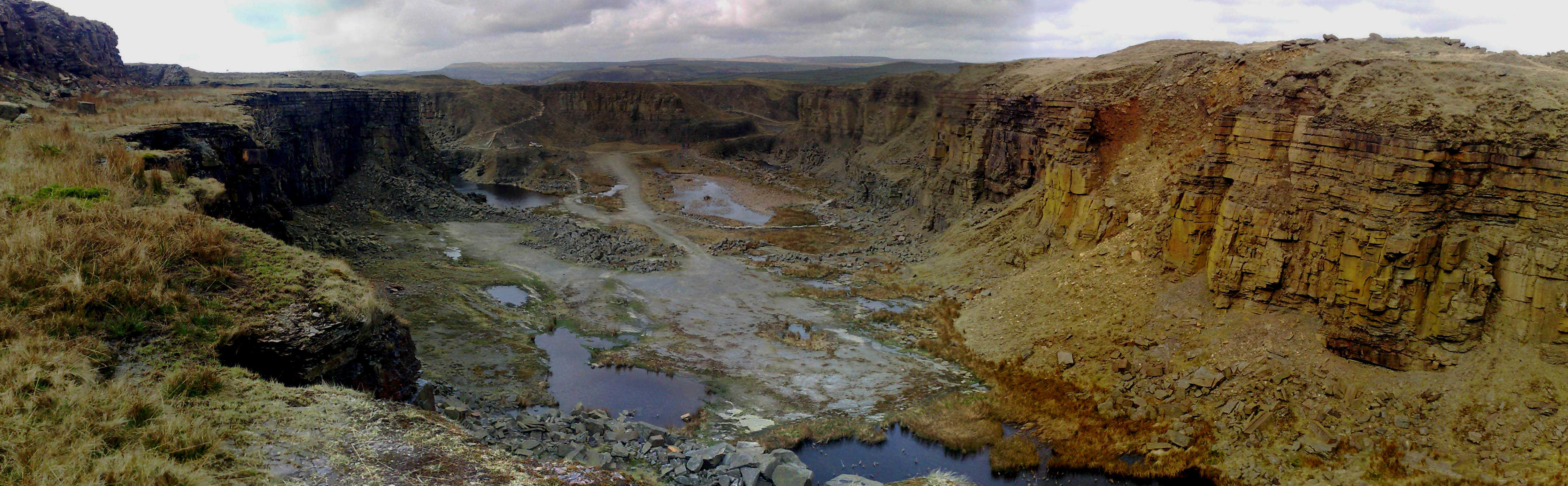 Lee Quarry, viewed from the new mtb trail.